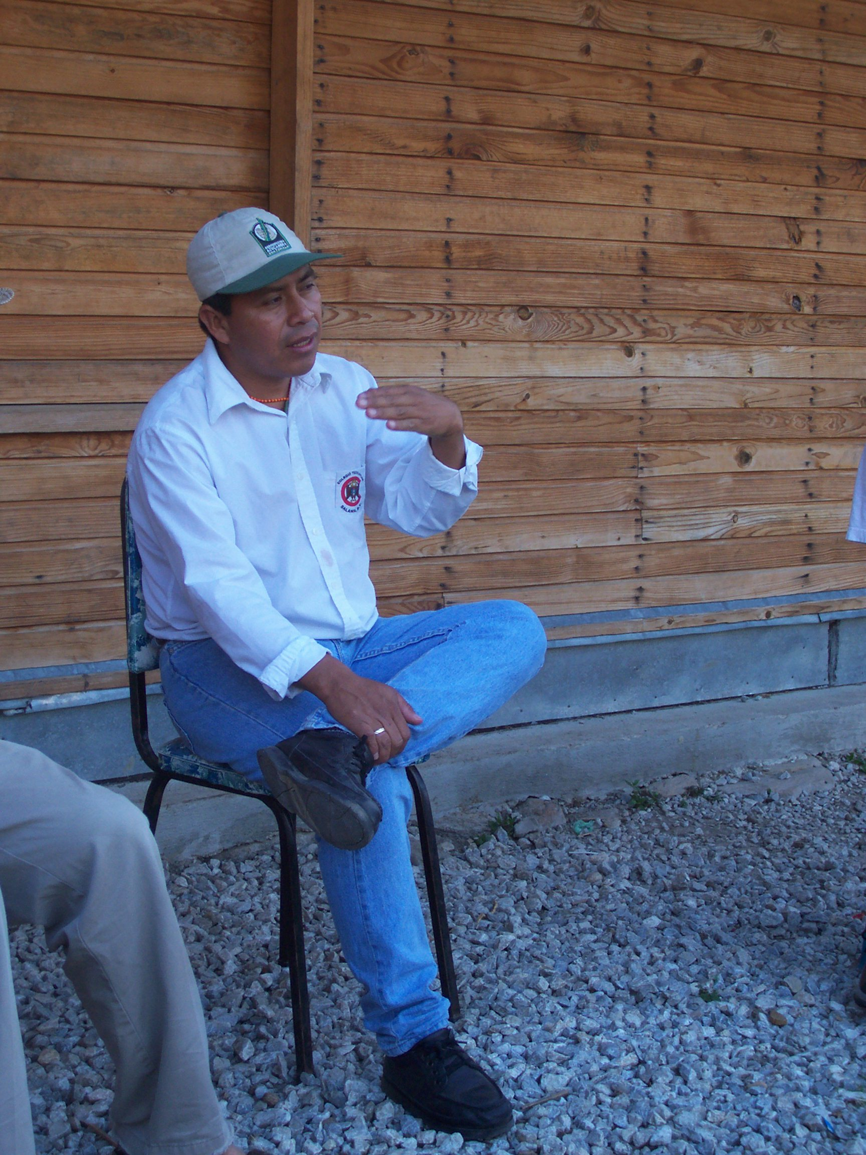 Jesús Tecú Osorio sits in front of the Rabinal school that he founded.